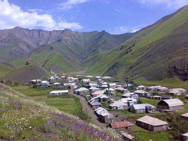 Къеди